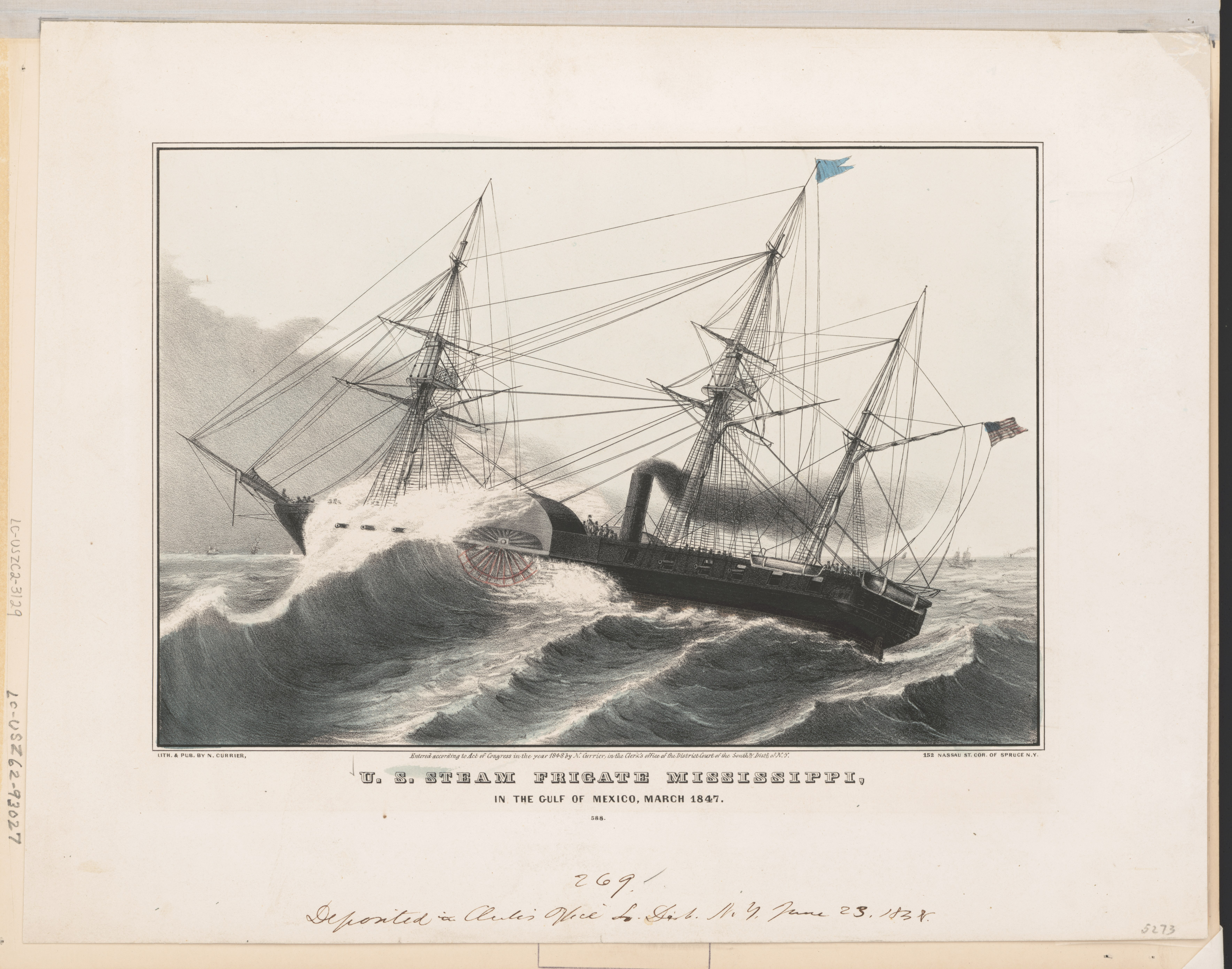 Title: U.S. steam frigate Mississippi, in the Gulf of Mexico, March 1847 Abstract/medium: 1 print : lithograph, hand colored.